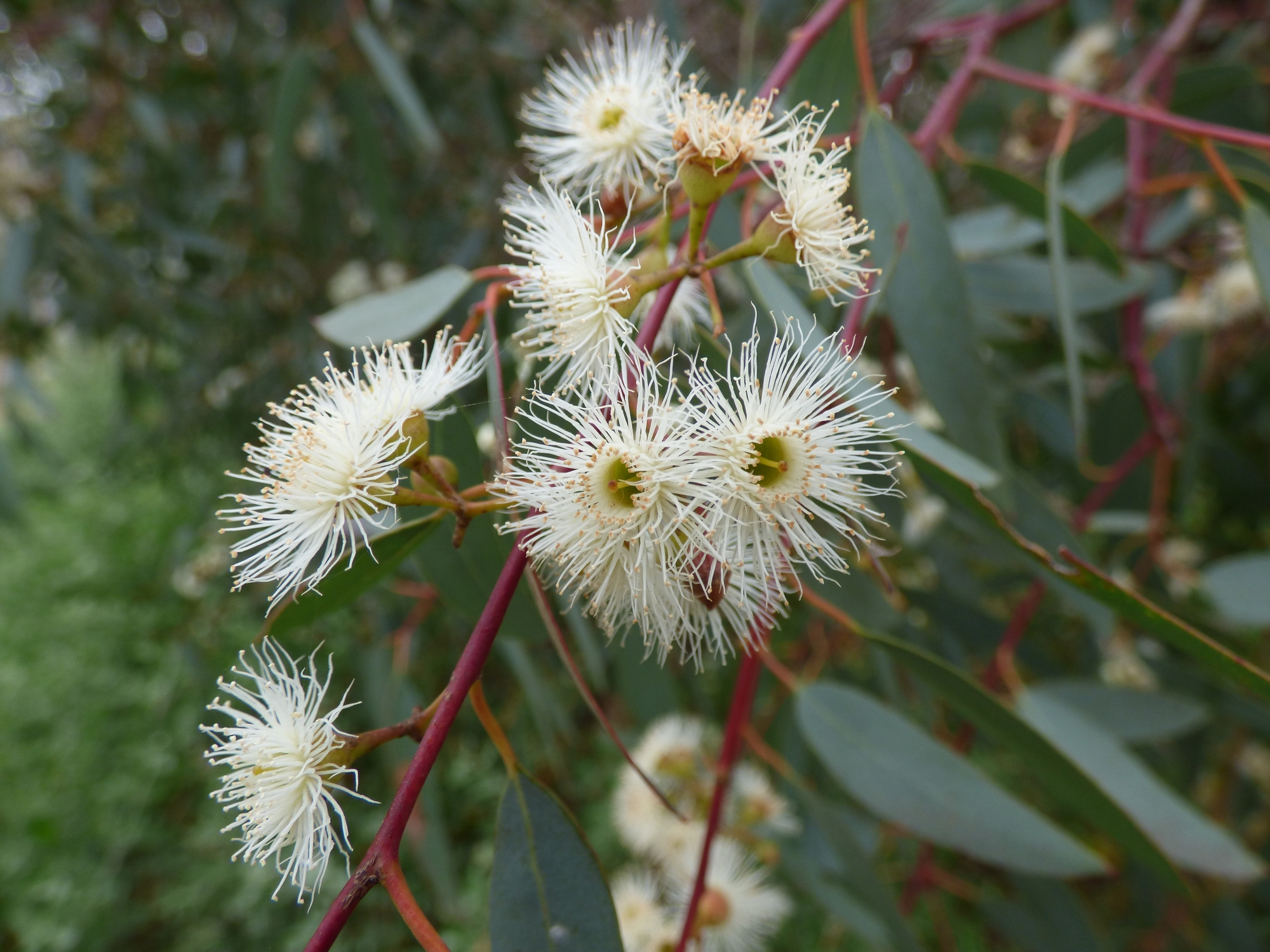 Flowers of remnant Eucalyptus camaldulensis in Napier Park, Strathmore